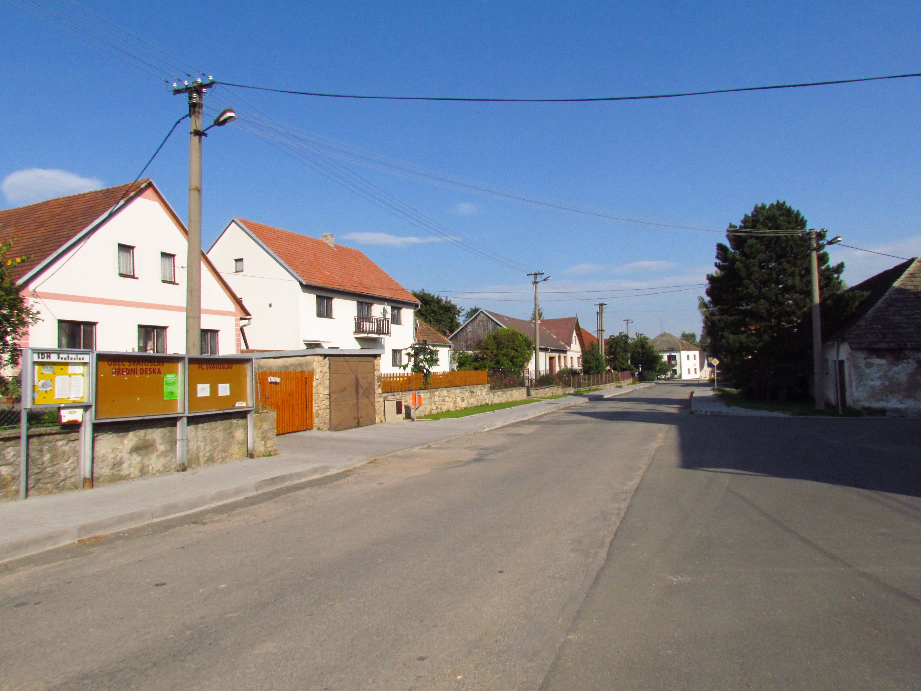 Center of Svatoslav, Třebíč District.